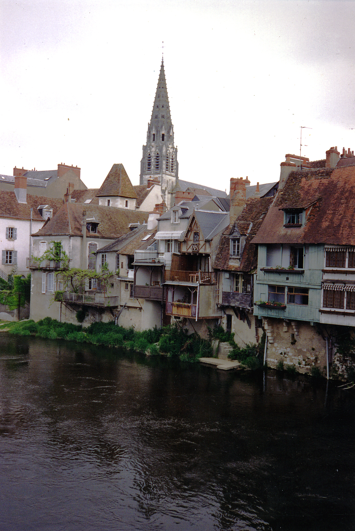 Argenton-sur-Creuse, a town in France. Taken in 1993.Argenton sur Creuse